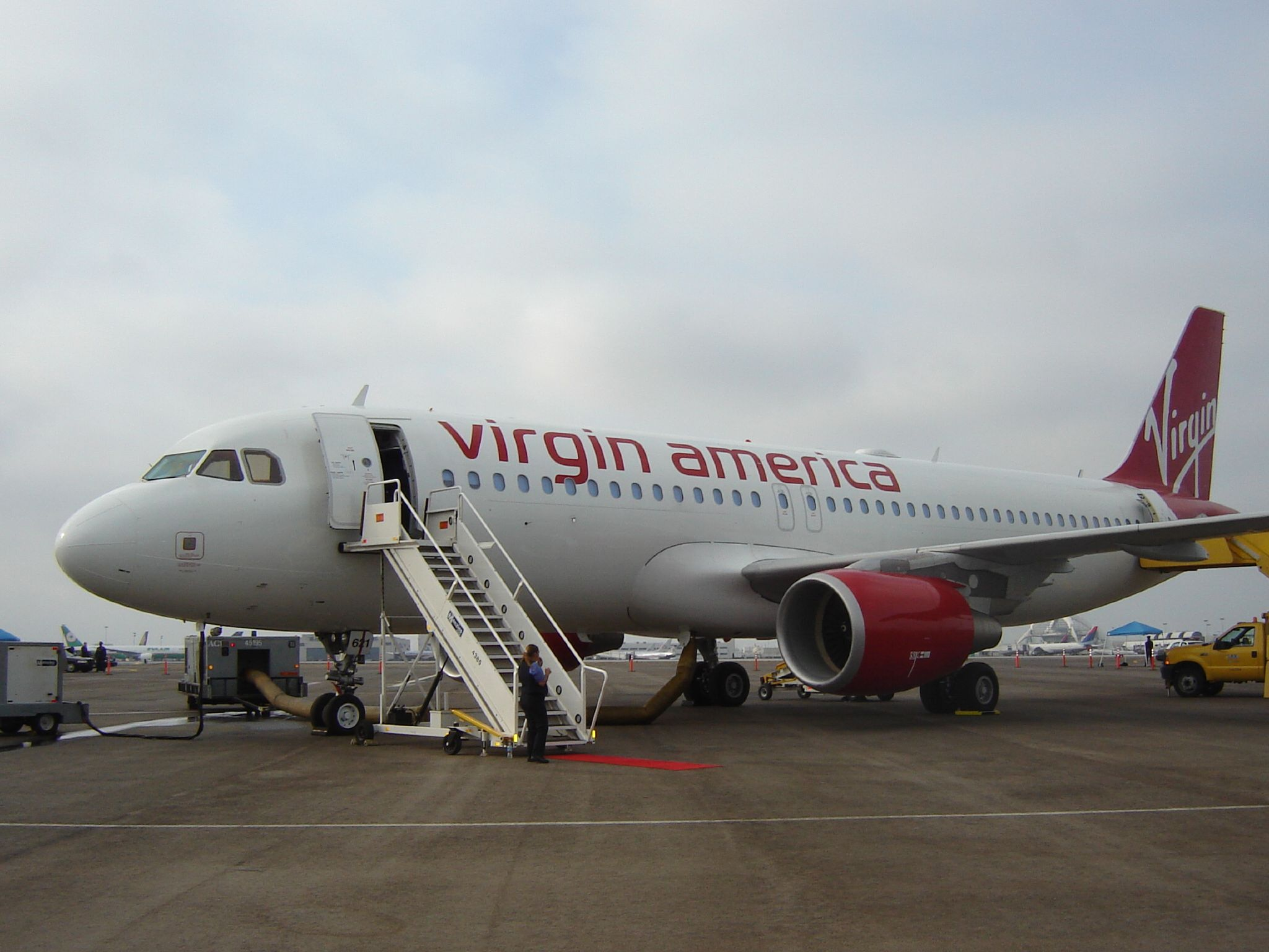 Virgin America A320-214 N621VA at LAX